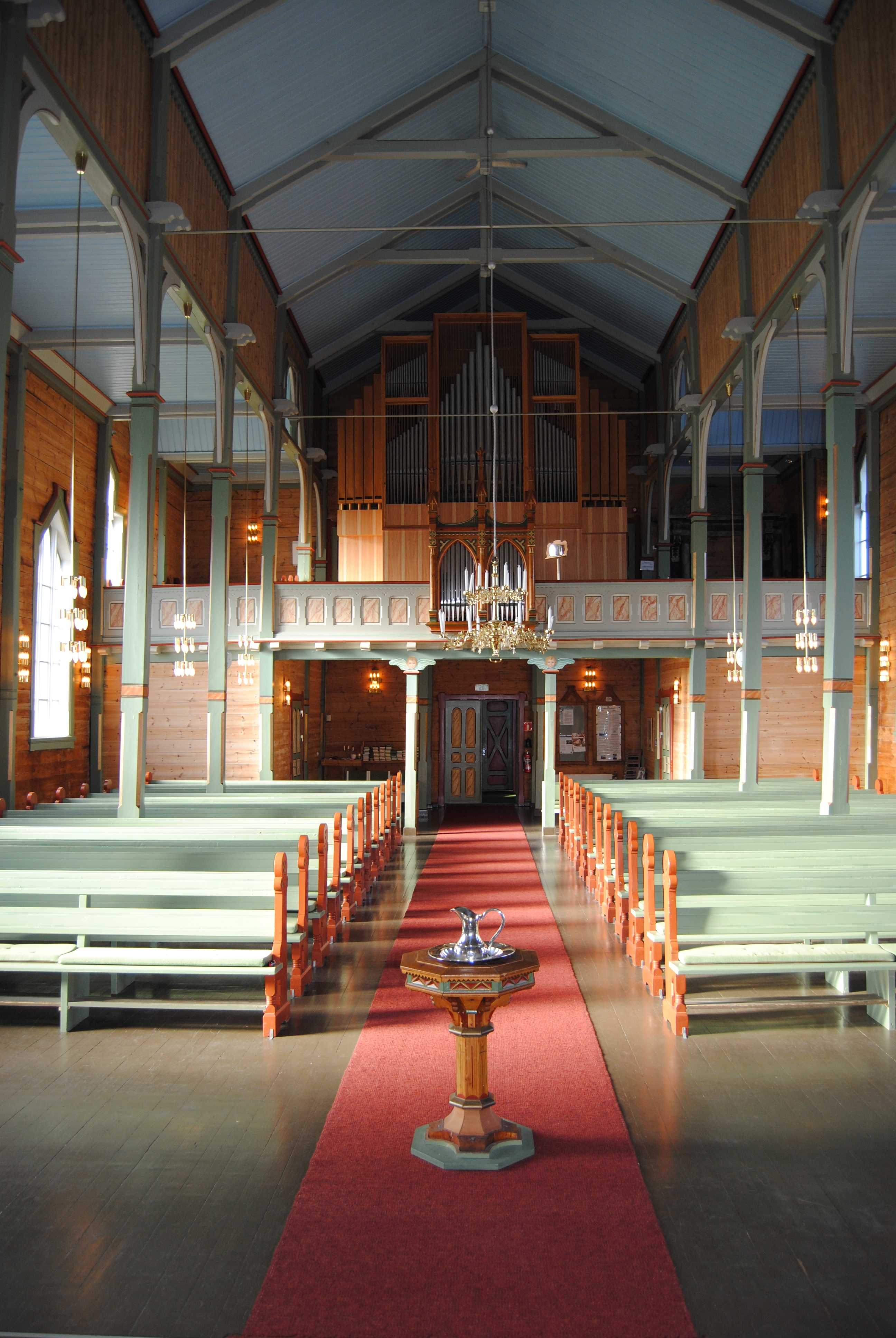 The main room of Manger church, Norway.